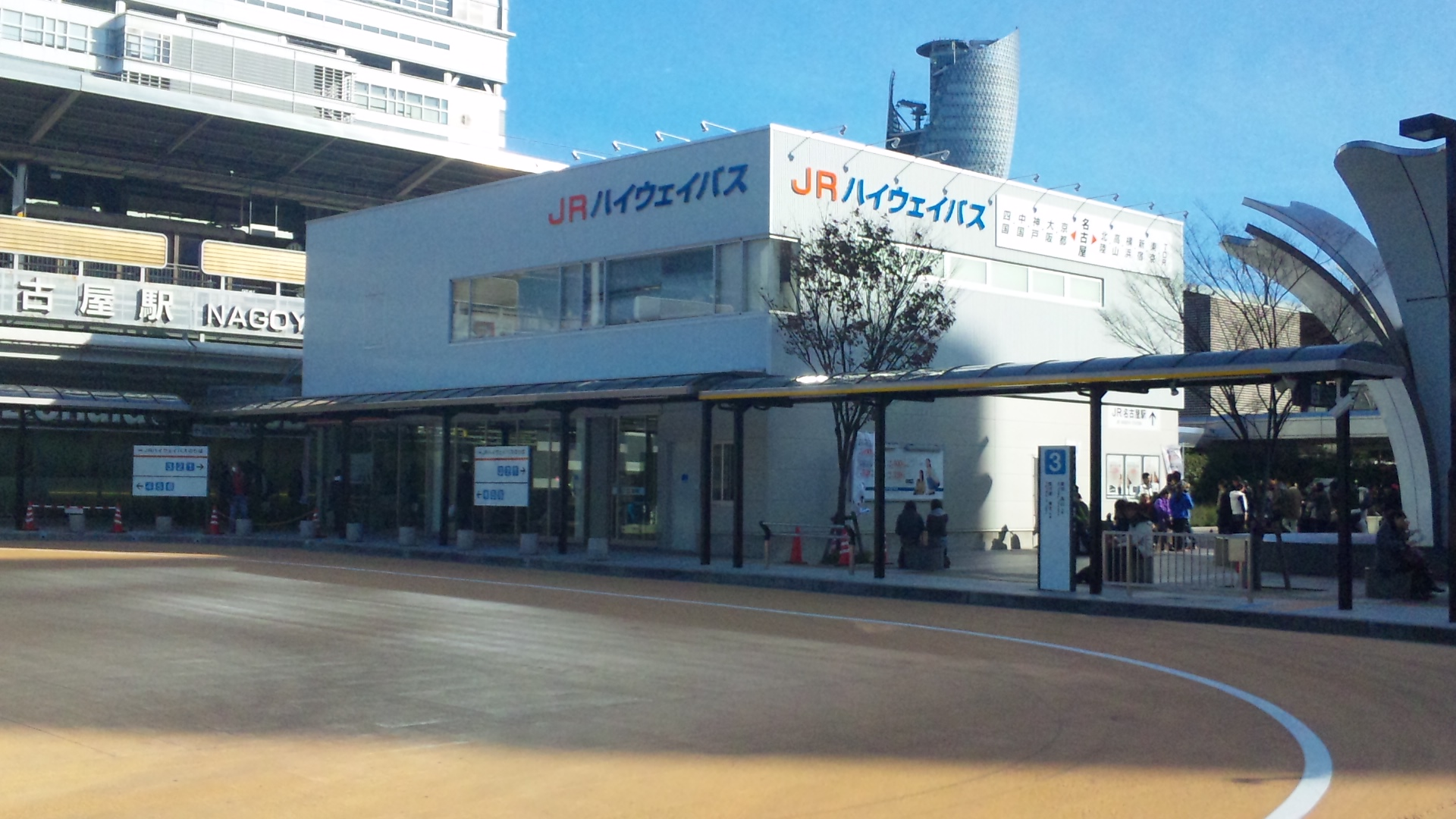 JR Highway Bus Nagoya Station Terminal(Built in December 9th,2010)